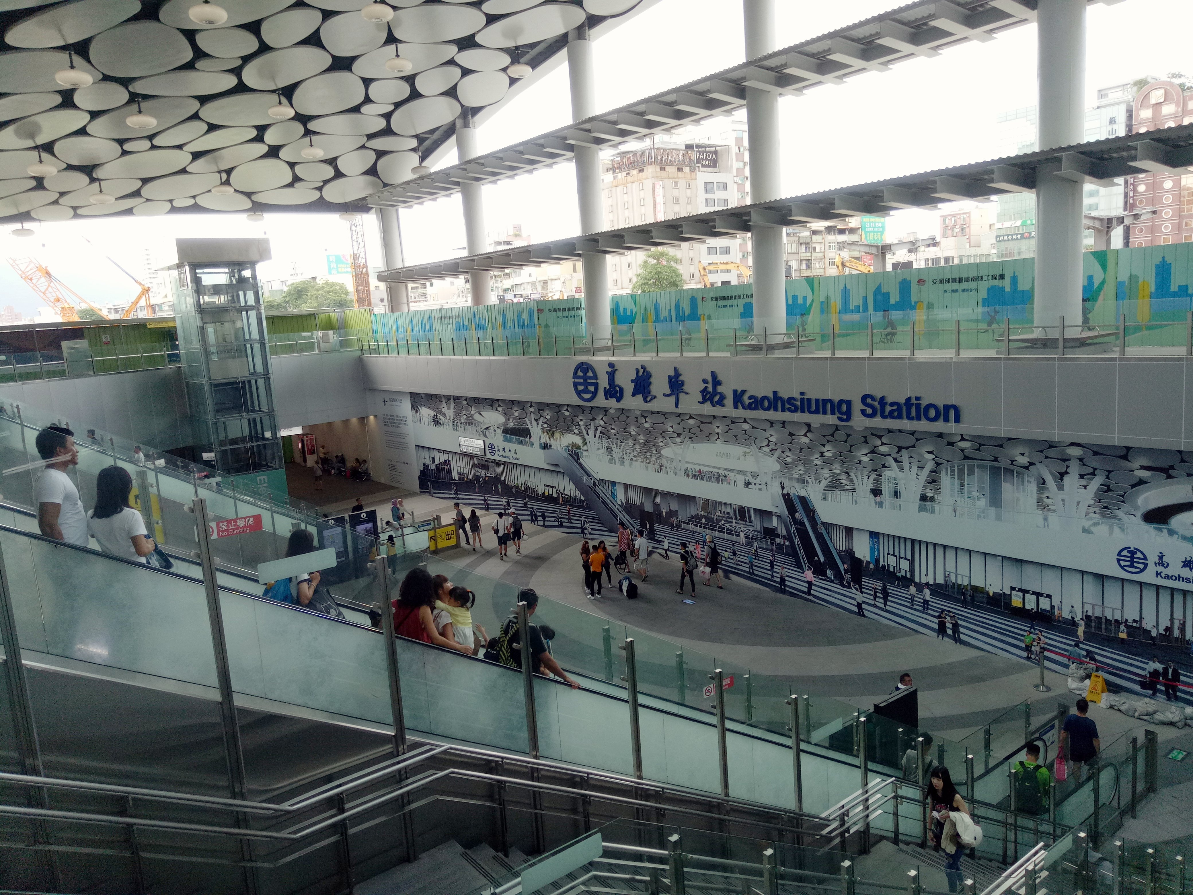 TRA Kaohsiung Station.